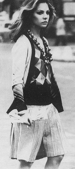 Carole André walking in central Rome